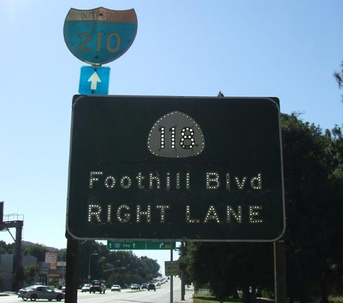 I, Jake Warner, took this photo myself on September 1st, 2006 and I release it into the public domain on the same date. This shows a white California highway 118 shield in Sunland, a suburb of Los Angeles. CA-118 no longer runs throug here; the shield is from the 1950s or so. It is on Foothill Boulevard just north of where Sunland Boulevard merges with it, and faces towards the Sunland Boulevard interchange.